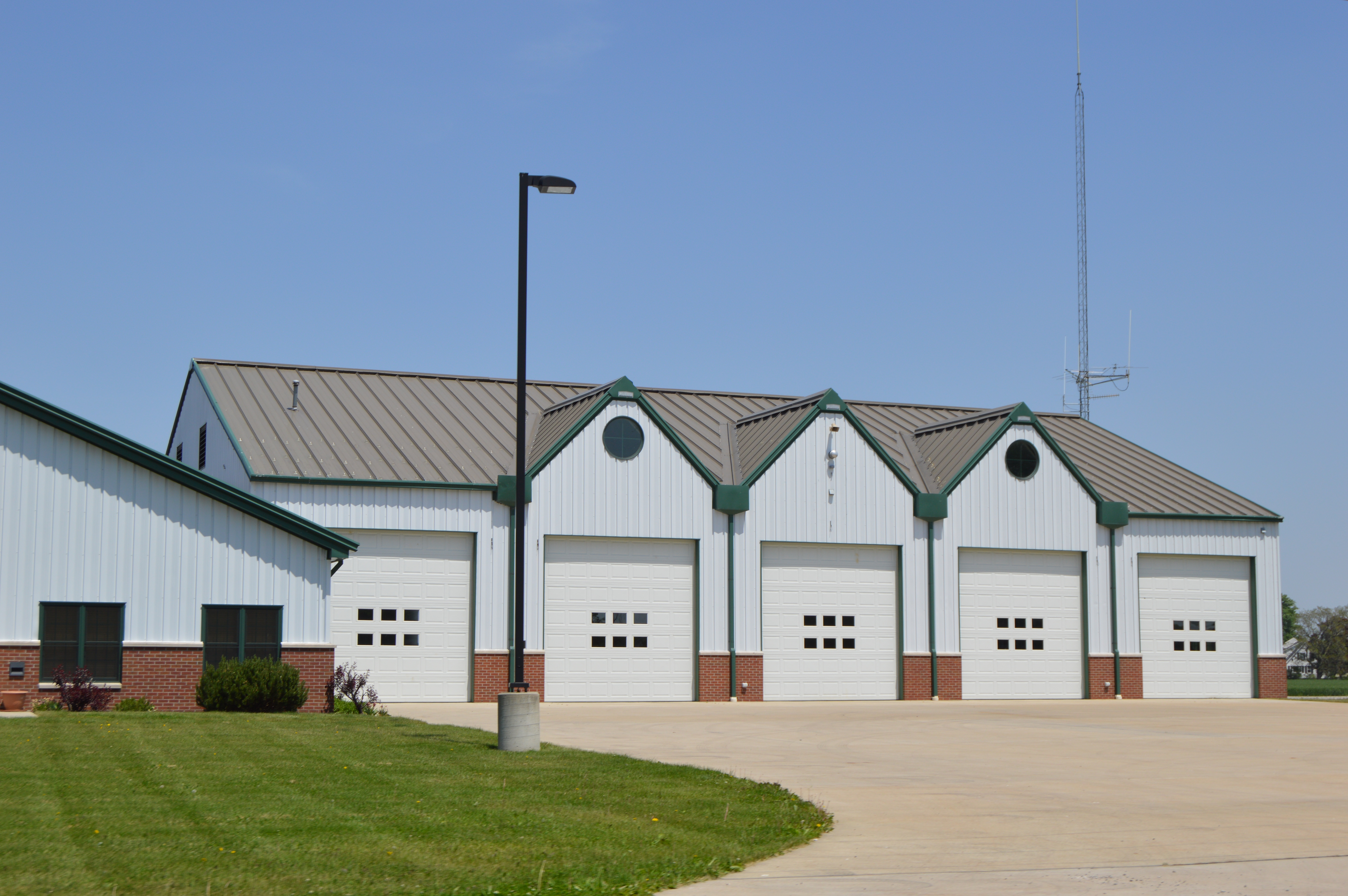 Front of the Richfield Township Fire Department, located at 11450 W. Sylvania Avenue at Richfield Center, Ohio, United States.